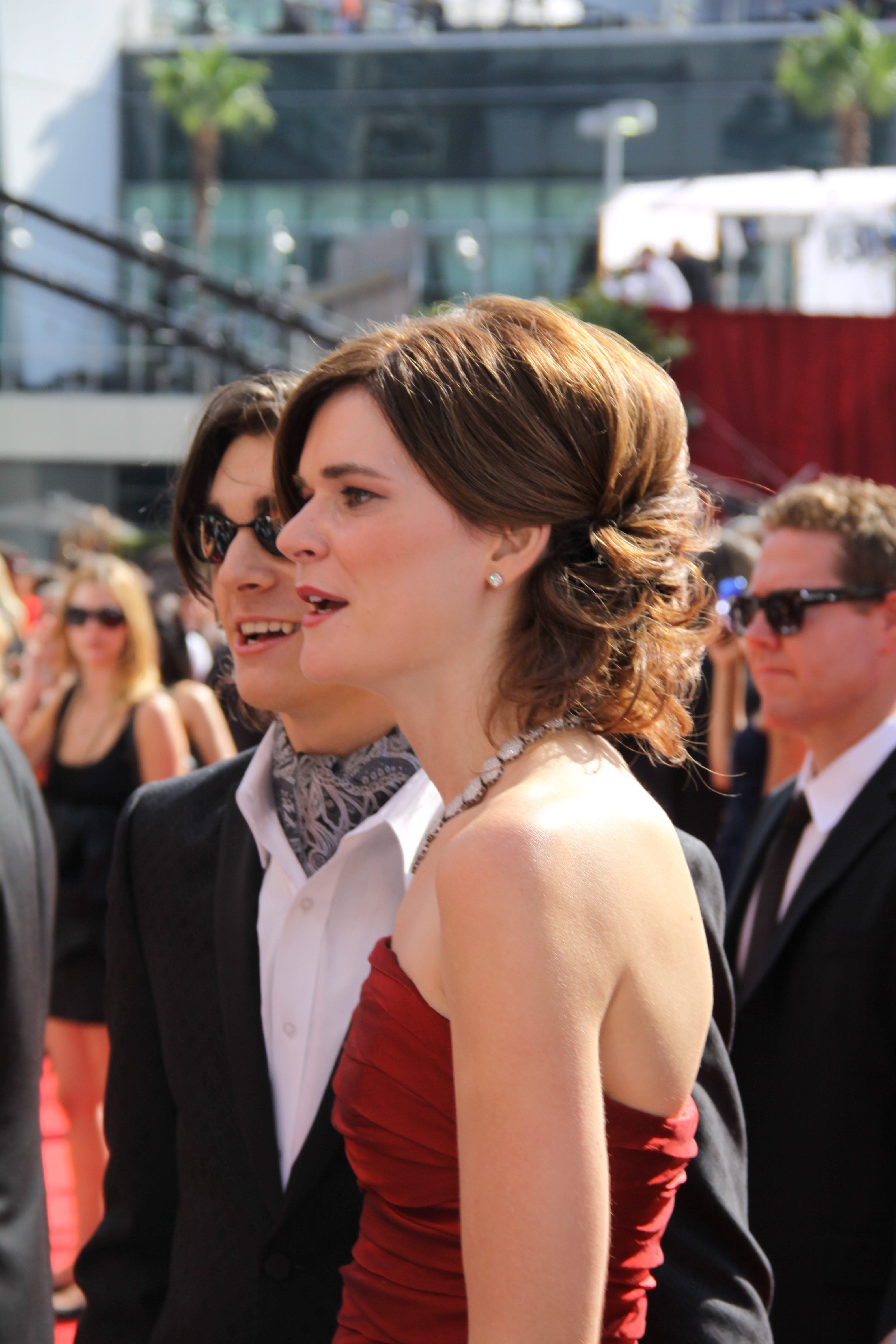 Betsy Brandt from AMC's 'Breaking Bad' at the 2010 Emmys